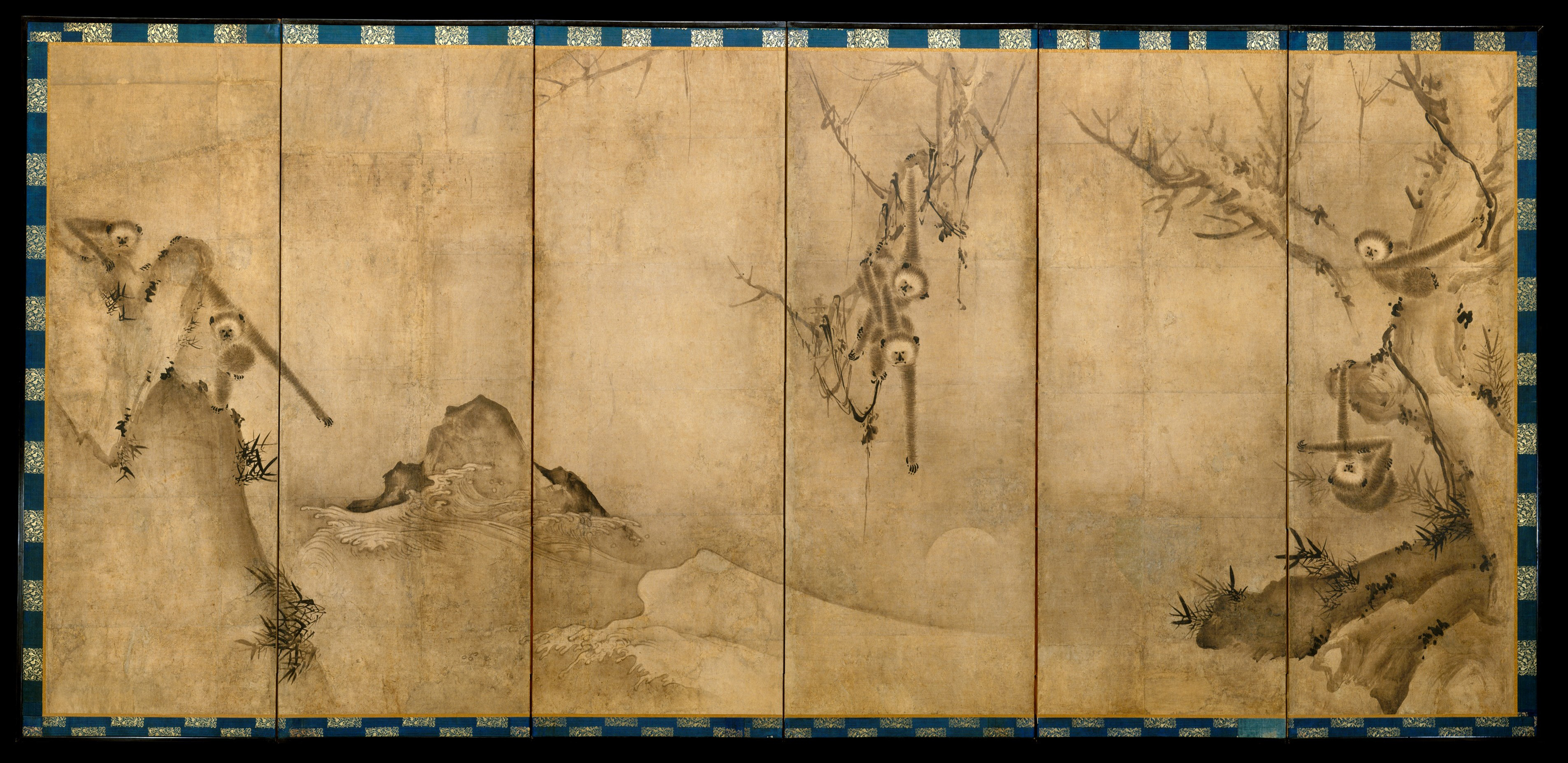 Japan; Screen; Screens